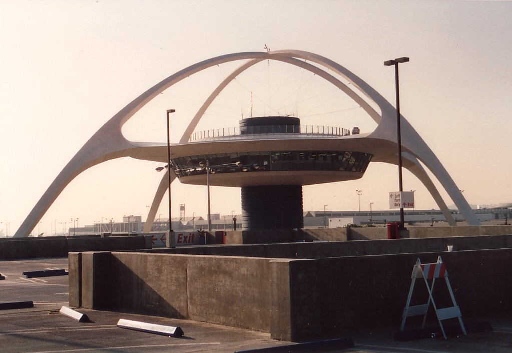 Building at Los Angeles Airport